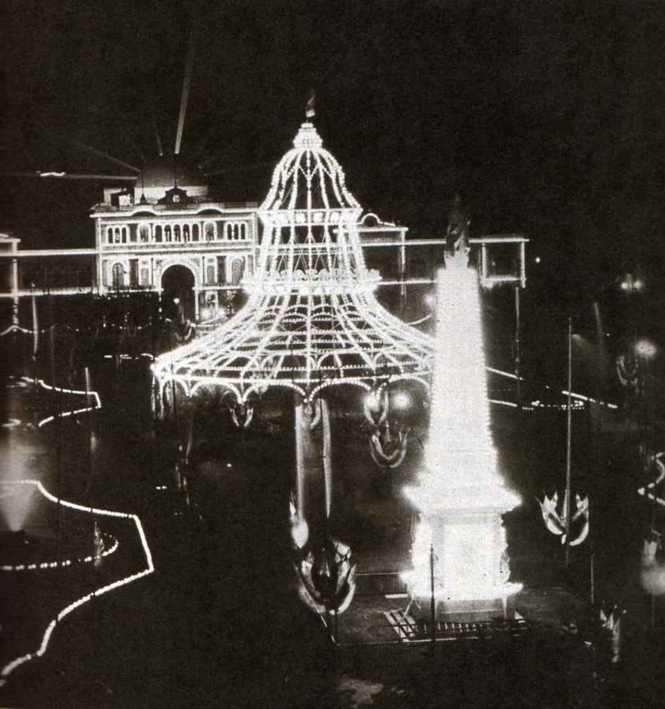 View of the Plaza de Mayo at night during the celebrations for the 100th. anniversary of the May Revolution. The metallic structure at the centre is the current dome of cage of condors cage, in the Buenos Aires Zoo.